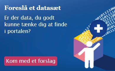 Screenshot from EUODP